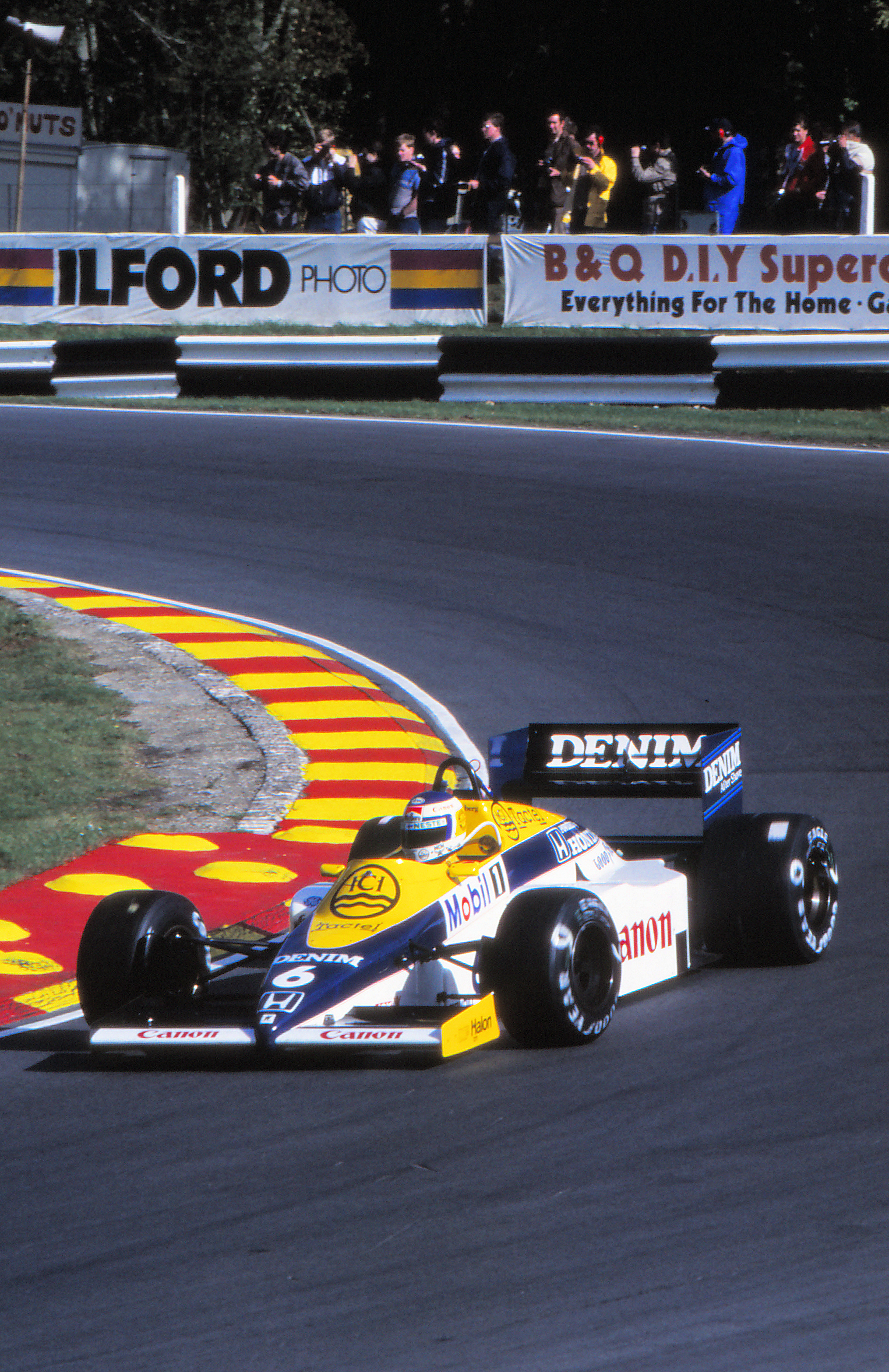 Keke Rosberg during practice for the 1985 European Grand Prix